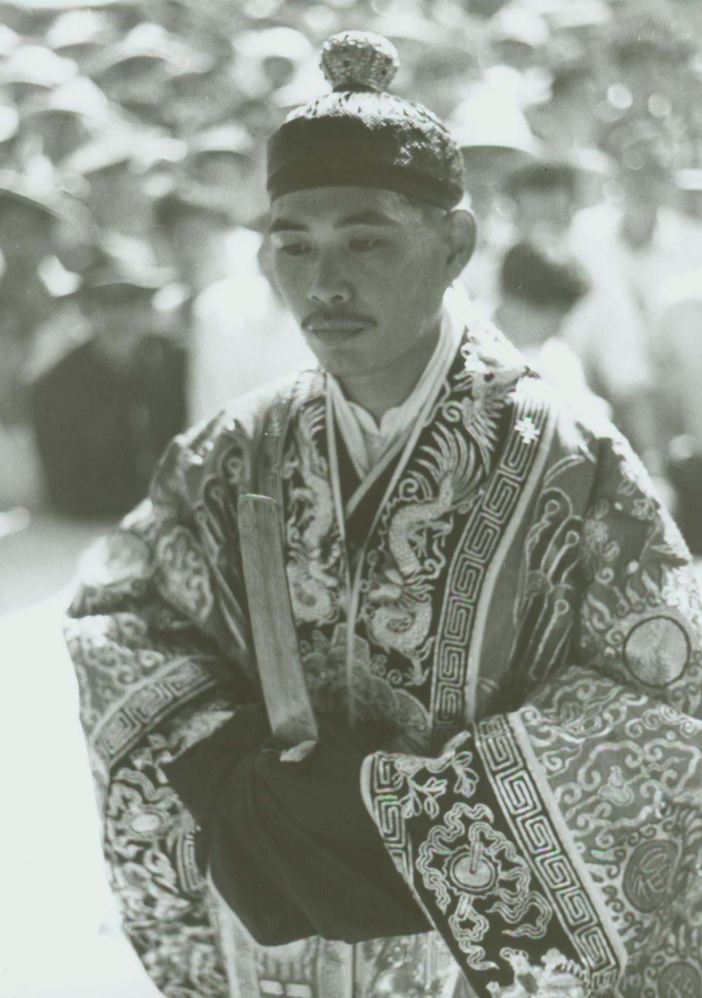 jung Taoist master on his way to his initiation in the Zhengyi order, in Gangshan, 1963, photo Kristofer Schipper